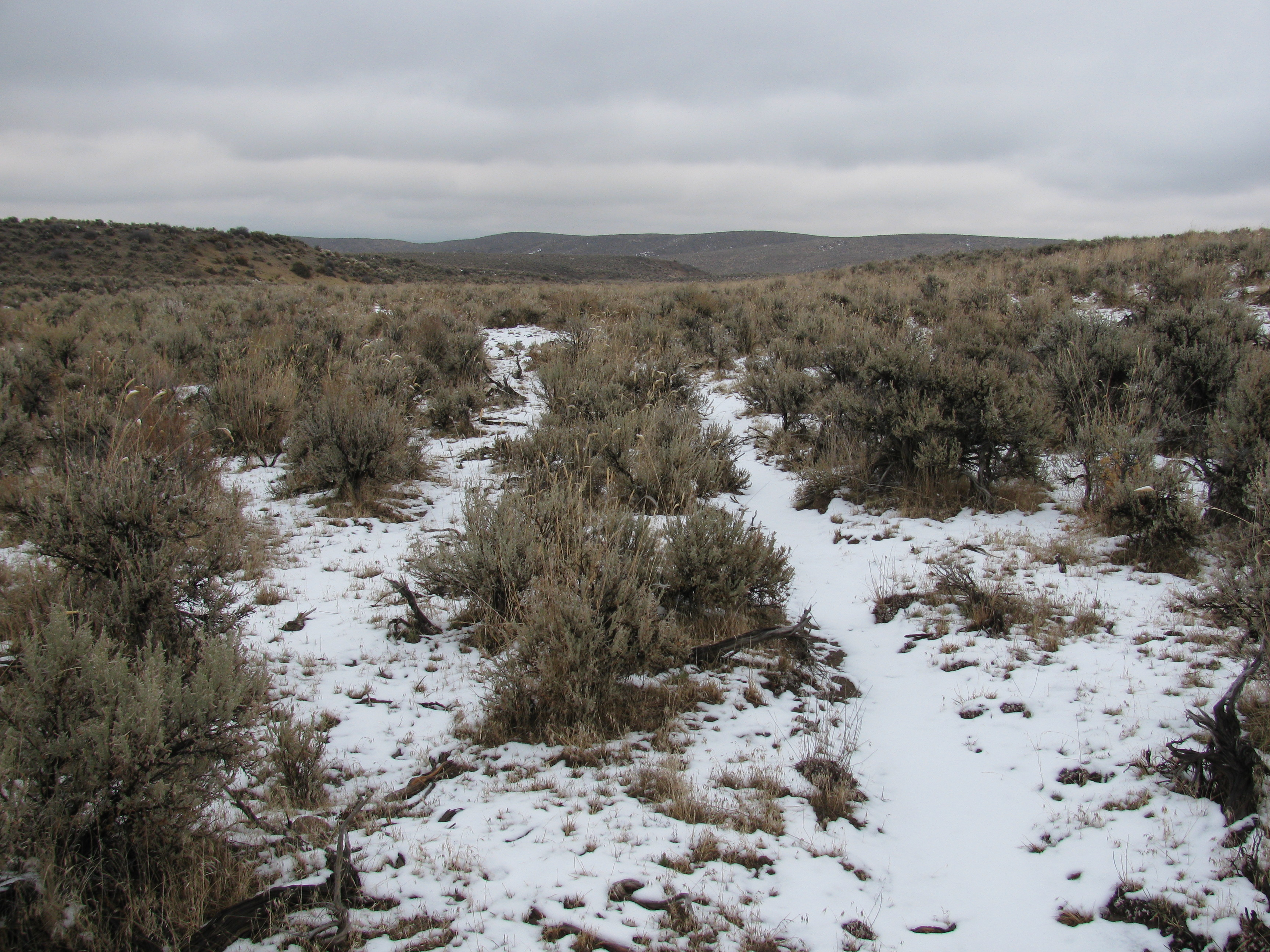 Faint trace of Meek's and Elliott's trail near Westfall Oregon